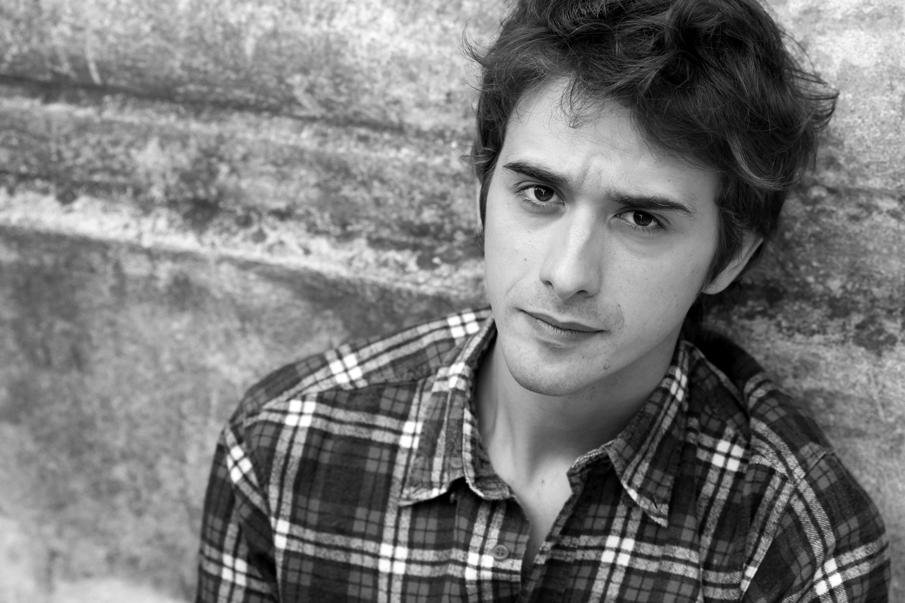 Italian actor Davide Iacopini